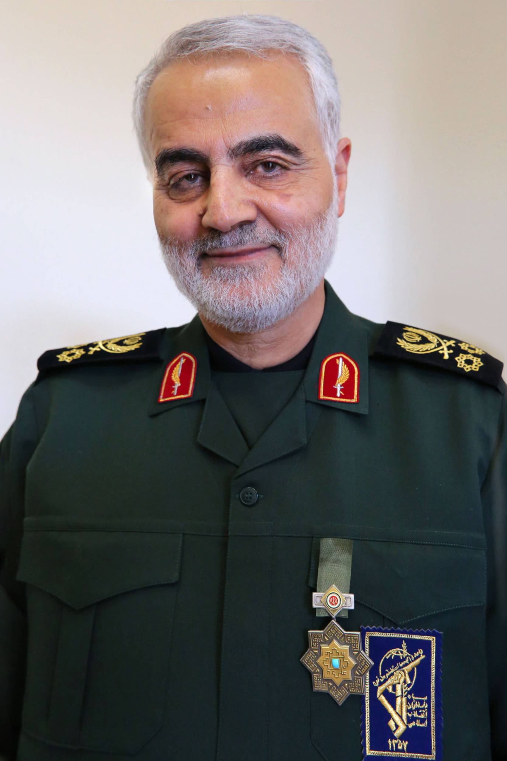 Qasem Soleimani with Order of Zolfaghar